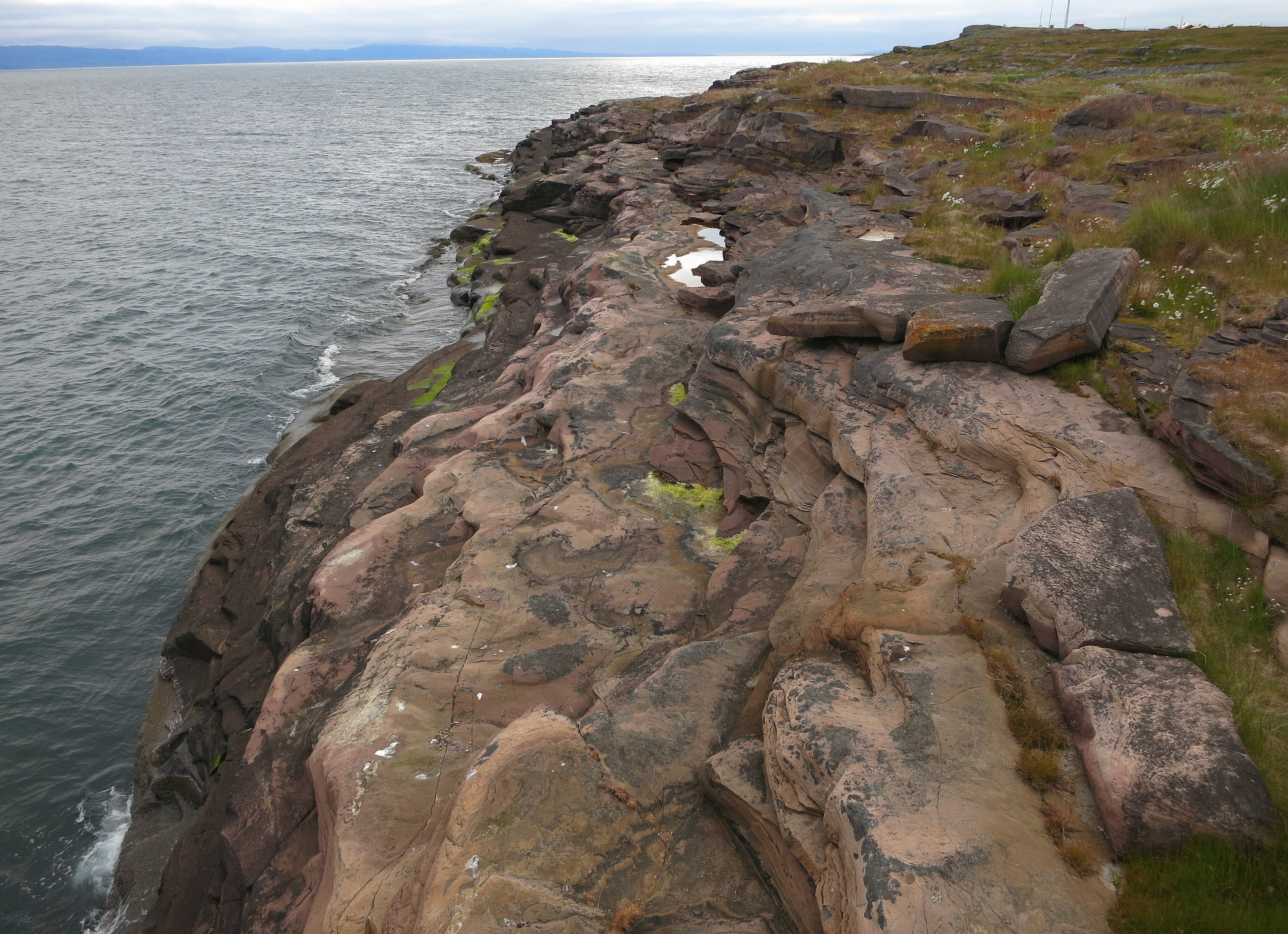 Beach of Barents Sea in Norway. A view from south coast of Vadsøya Island to west, over Varangerfjord. (Finnmark)